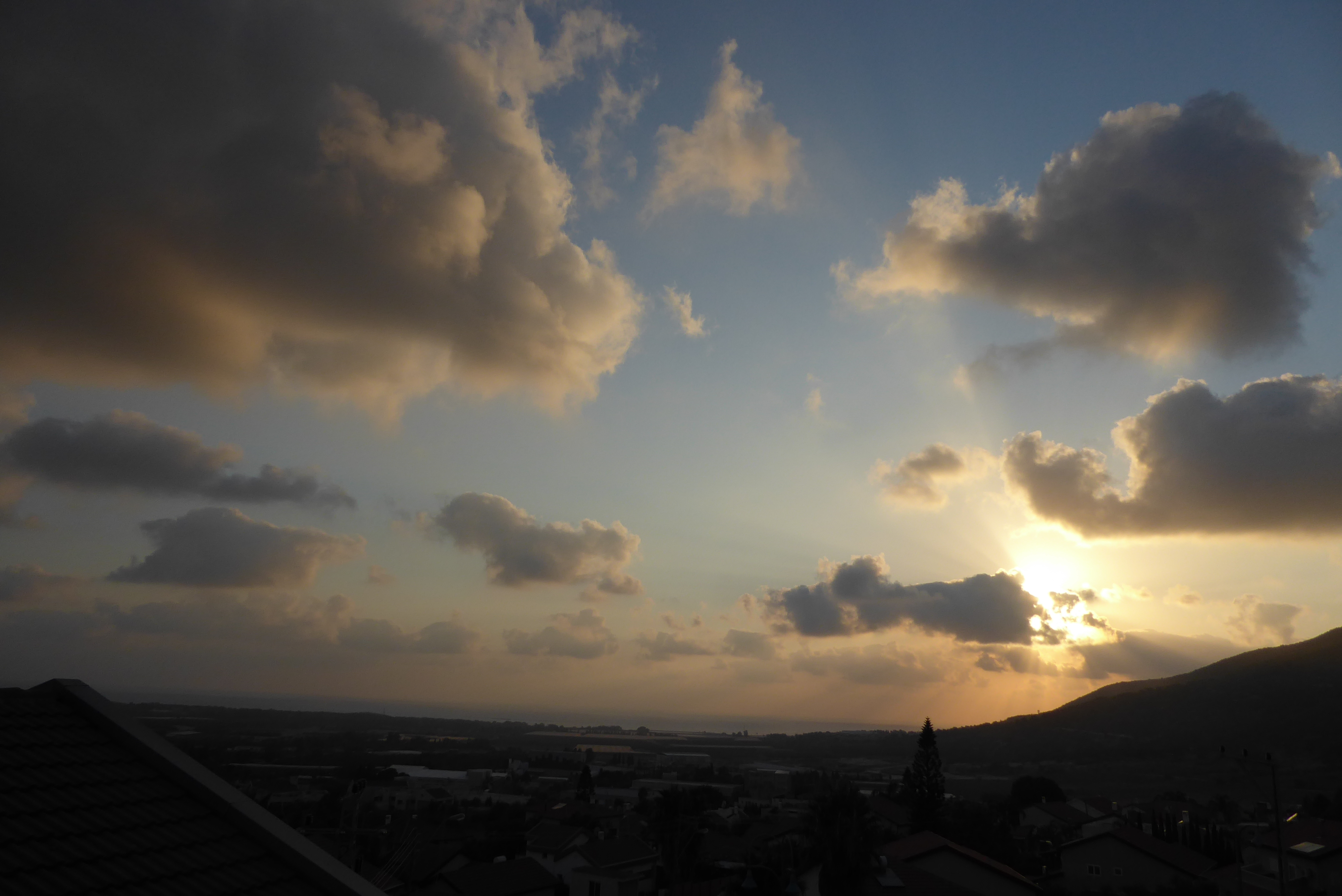 Shlomi (Hebrew: שְׁלוֹמִי) is a town in the Northern District of Israel.